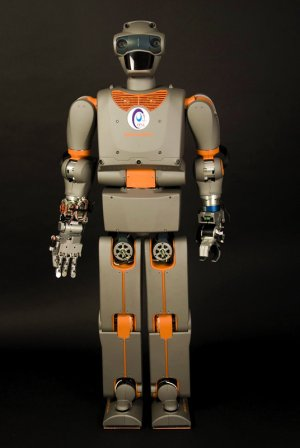 (Davide Faconti, Pal Technology